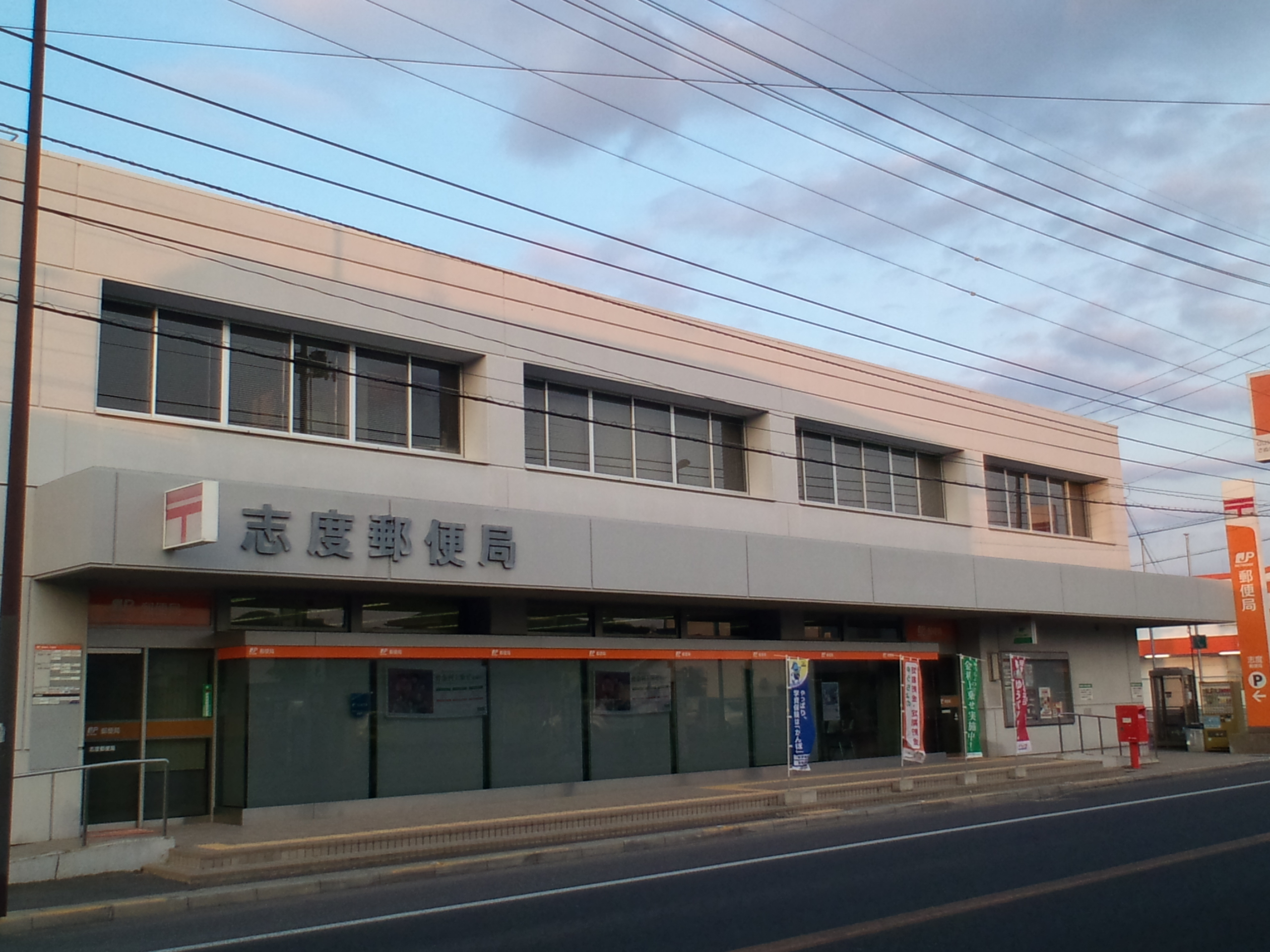 Shido Post Office.